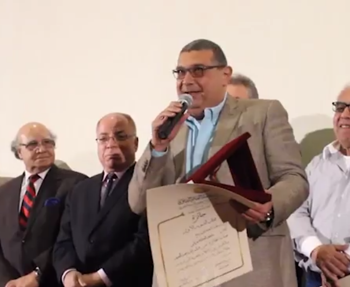 Maged El Kedwany in awards ceremony 2017